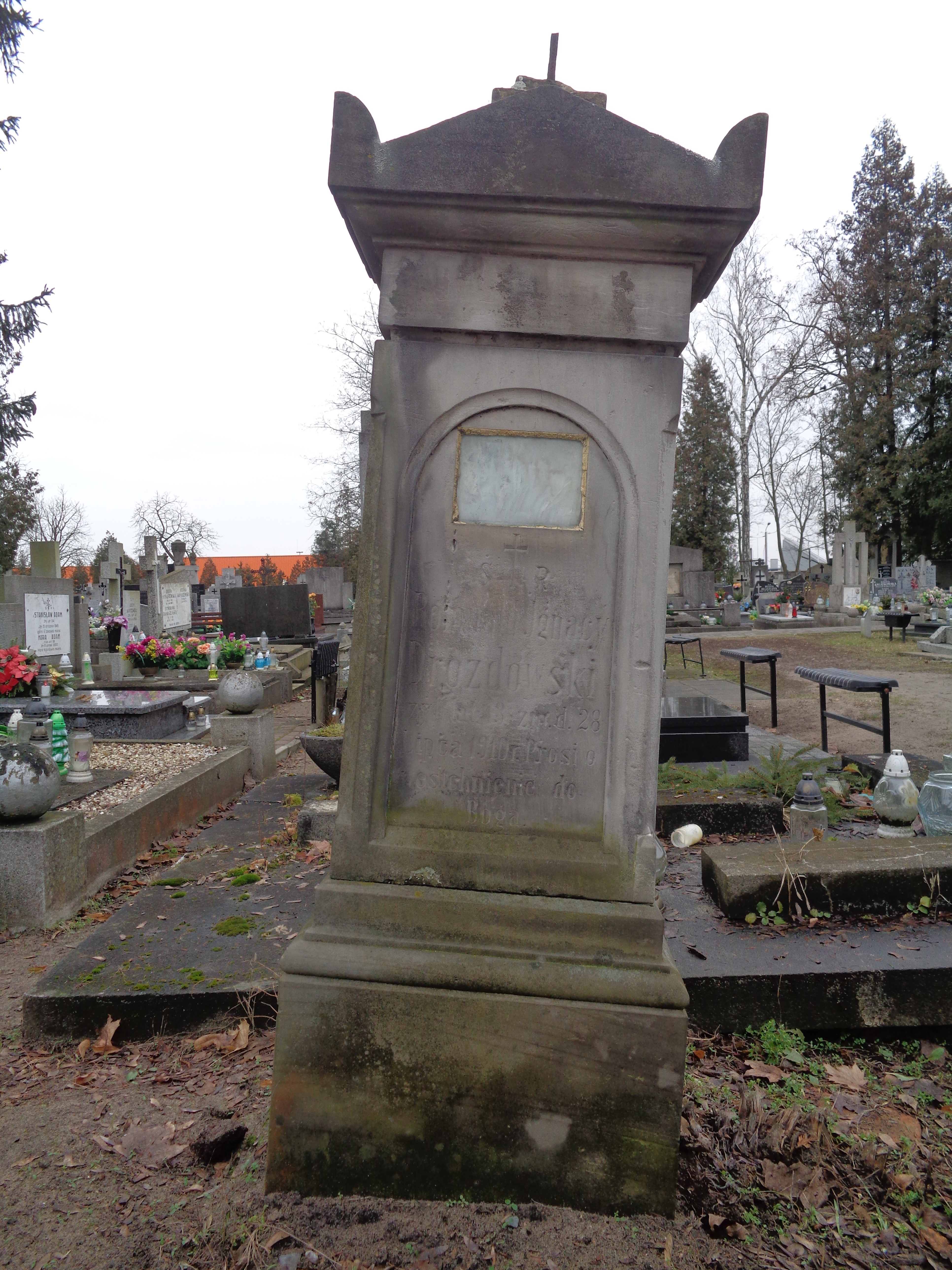 Monumental grave of Roman Ignacy Drozdowski, who died in 1910 year at age of 13 years on communal cemetery in Włocławek.